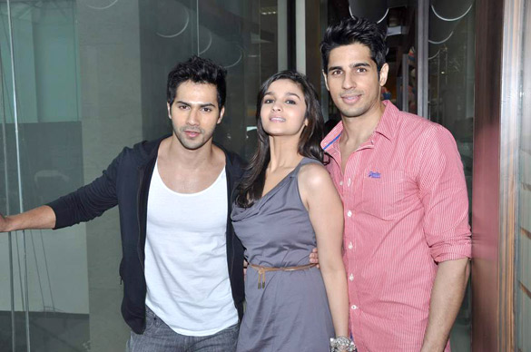 Varun Dhawan, Alia Bhatt and Sidharth Malhotra during Student of the Year promotions